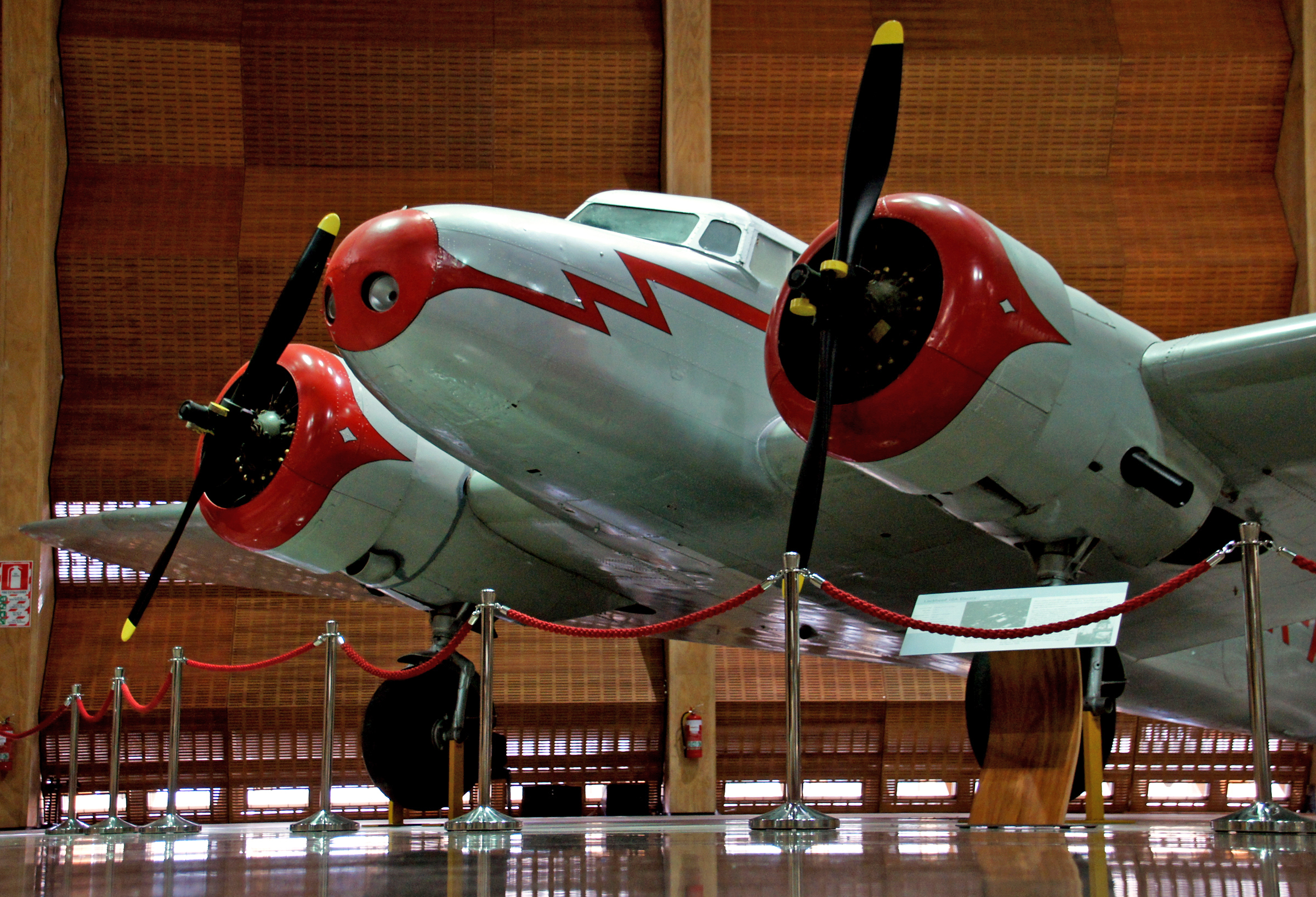 The Lockheed Model 10 Electra was a twin-engine, all-metal monoplane airliner developed by the Lockheed Aircraft Corporation in the 1930s to compete with the Boeing 247 and Douglas DC-2. The aircraft gained considerable fame as it was flown by Amelia Earhart on her ill-fated around-the-world expedition in 1937.